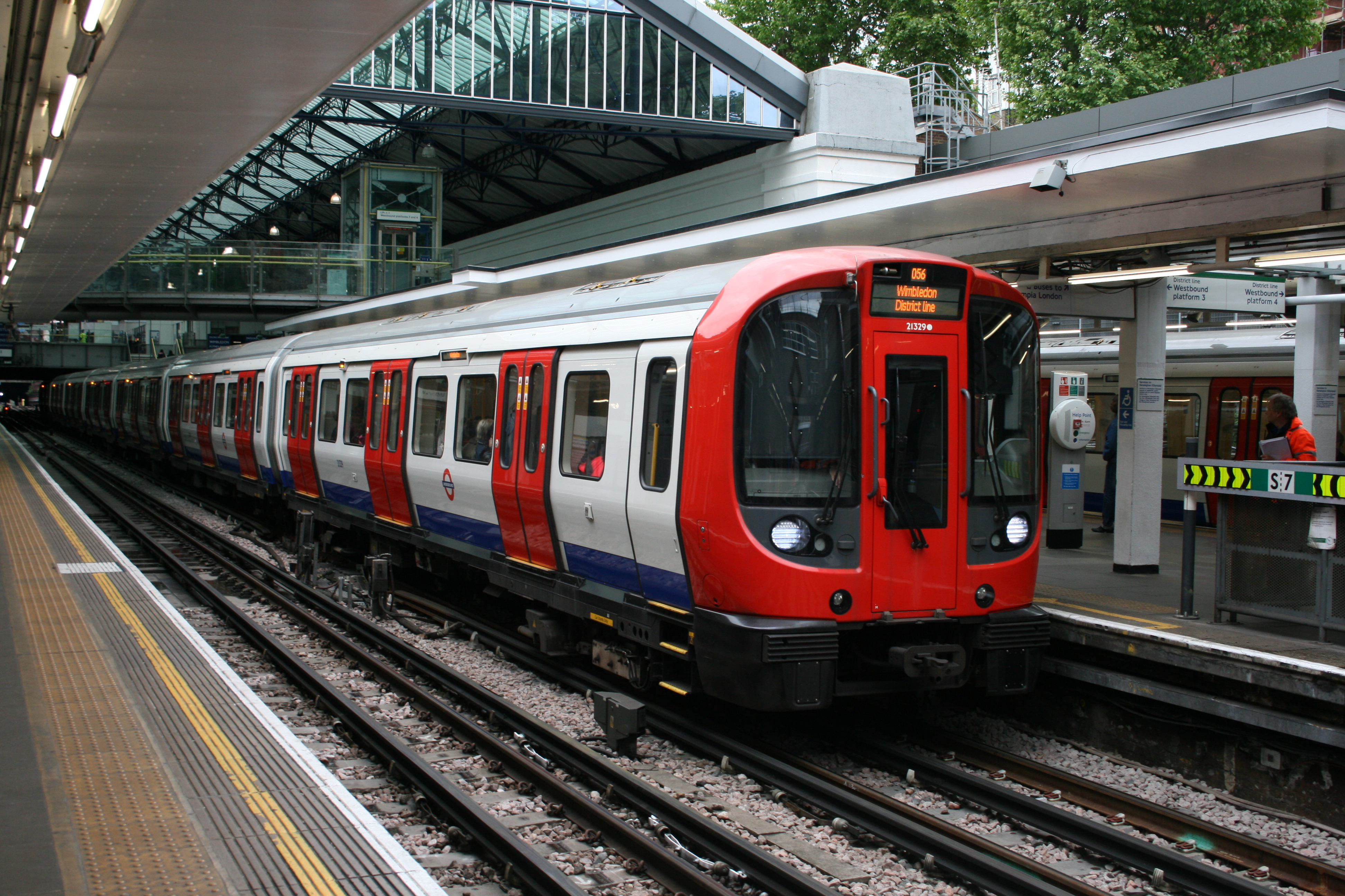 London Underground S7 Stock 21329 on District Line, Earl's Court